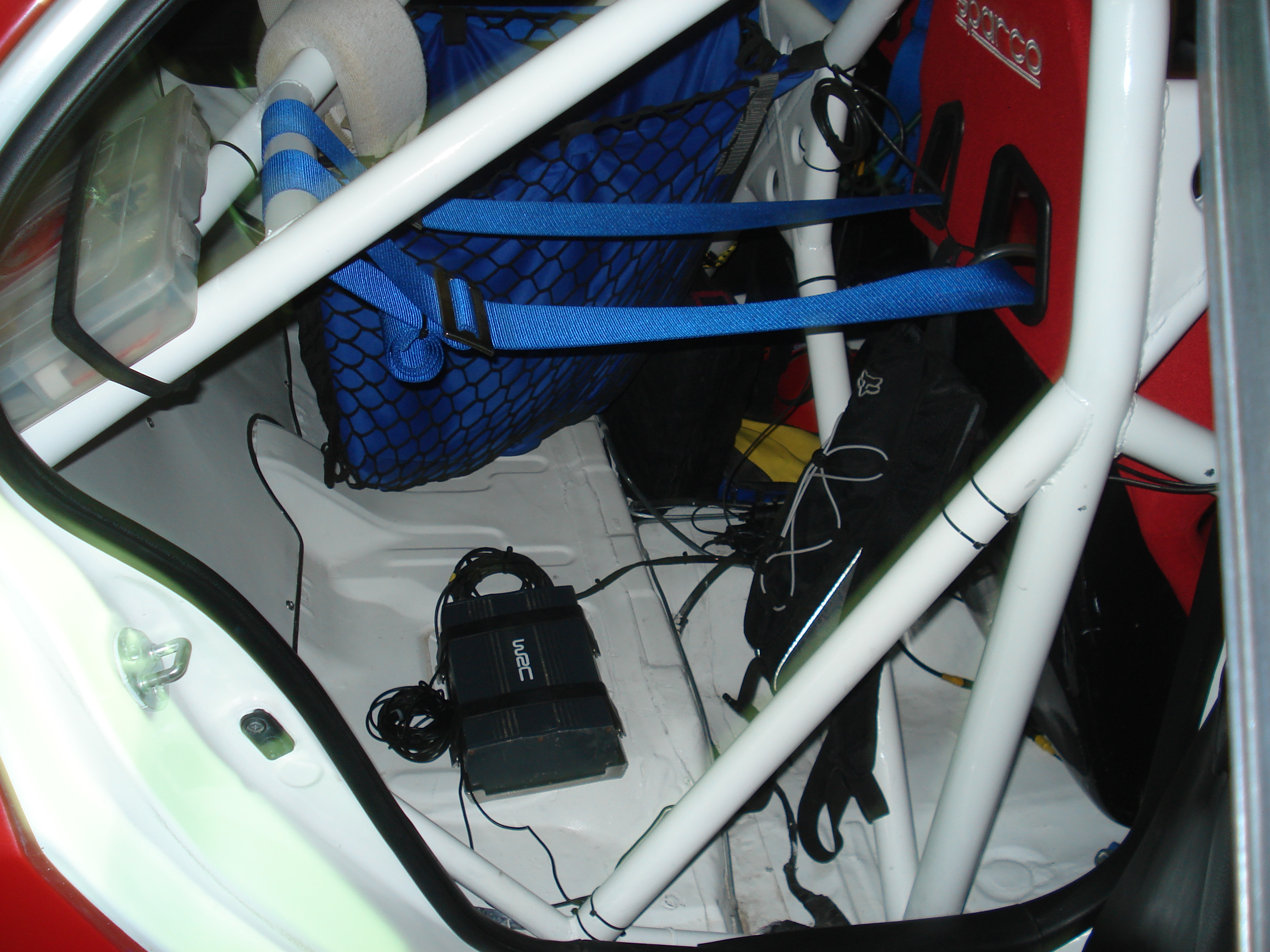 The standard World Rally Championship GPS unit installed in Rodrigo Salgado's Mitsubishi Lancer Evo IX prior to the 2008 Rally Mexico at rally base in the Poliforum in Leon, Mexico.